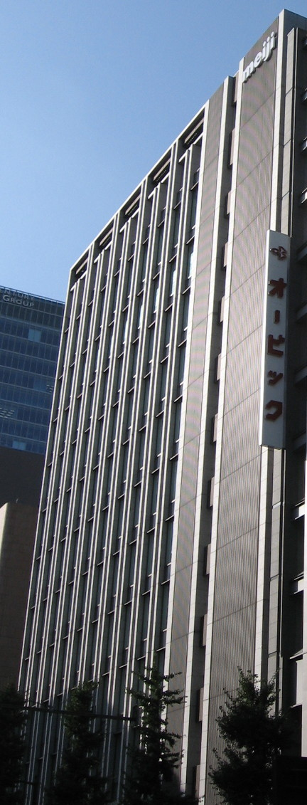 Meiji Holdings and Meiji Seika Pharma headquarters in Kyobashi, Tokyo